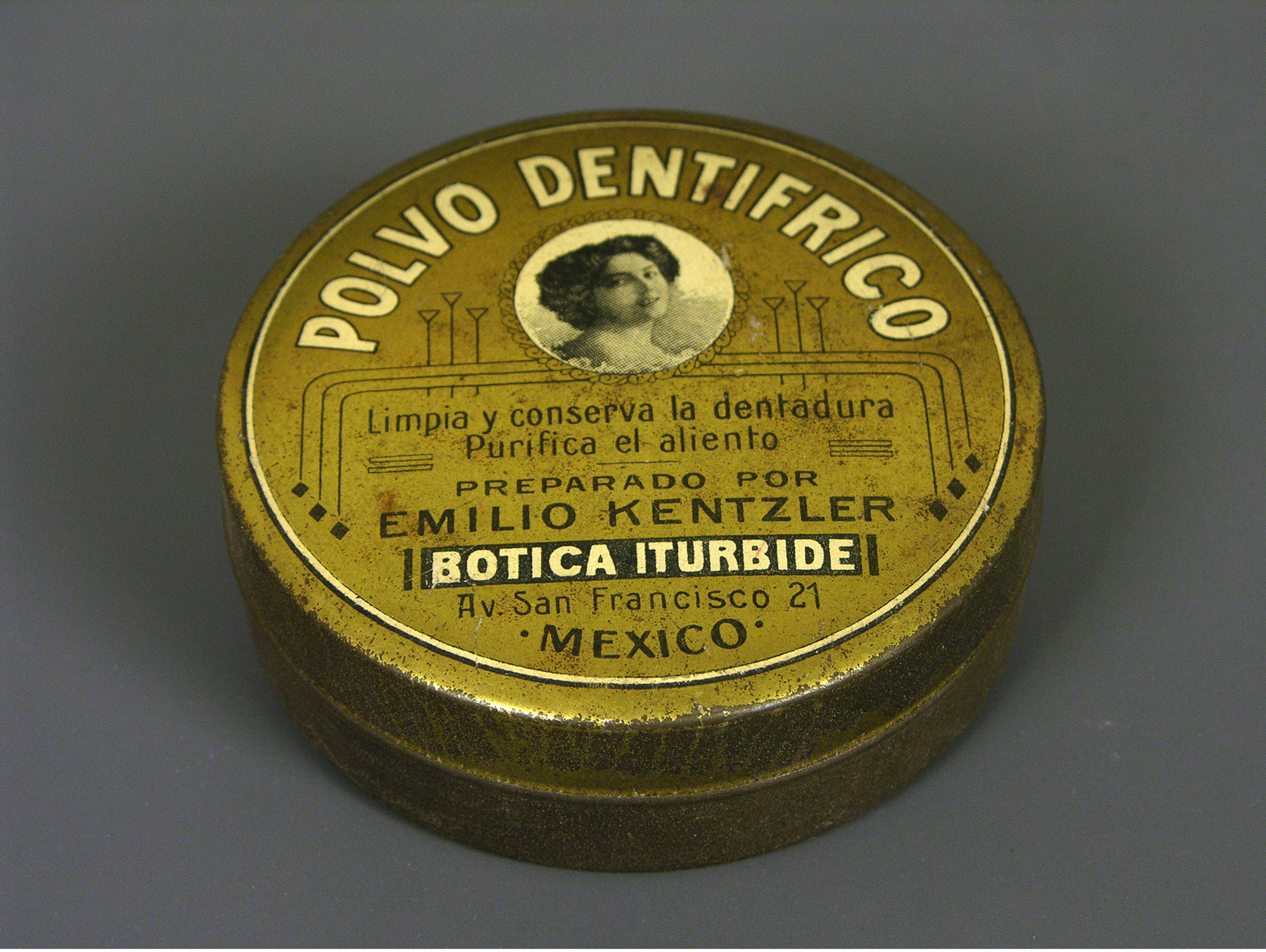 Botica Iturbide Dental Powder metal container beginning of the 20th century